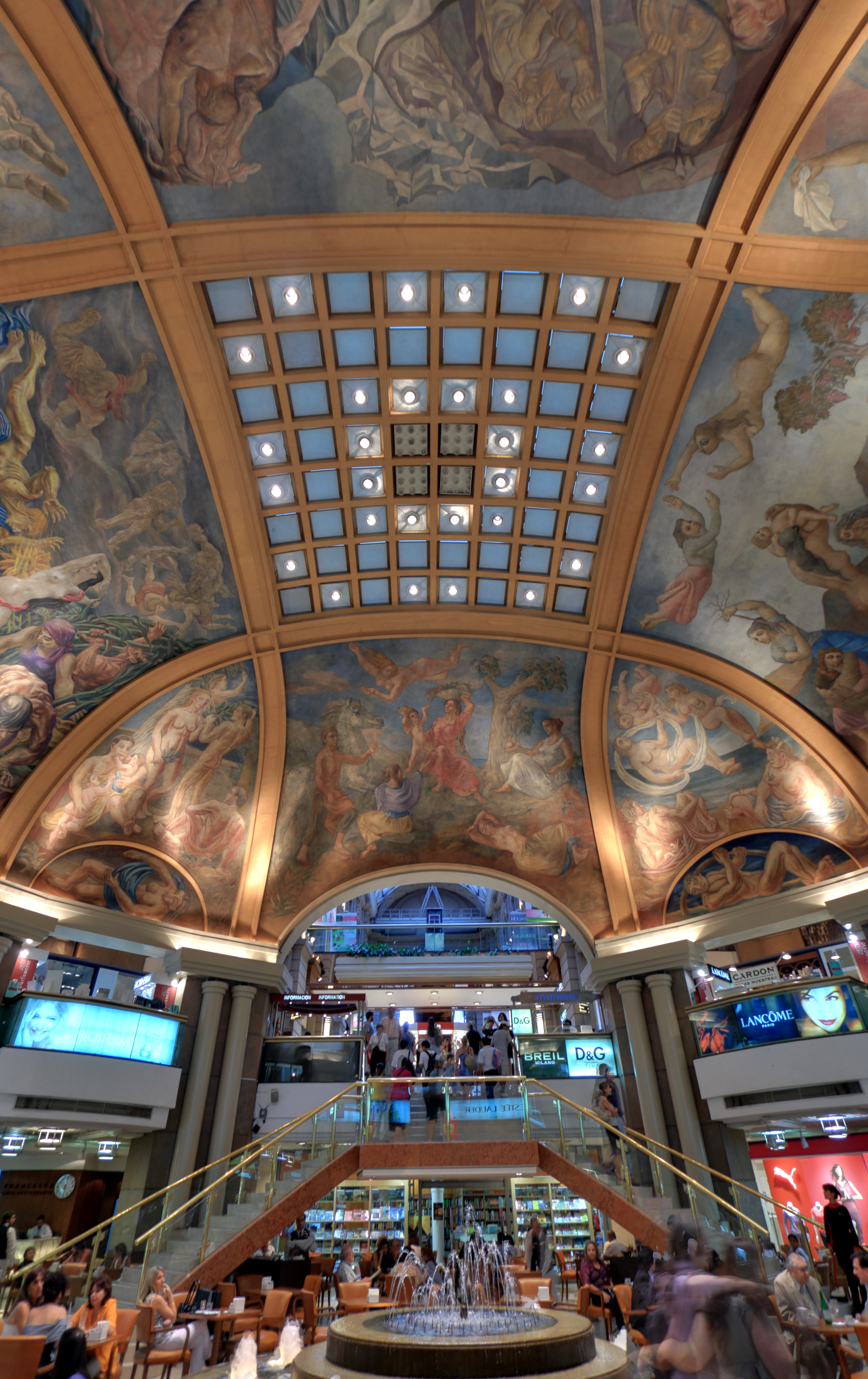 Please, have this description accessible to all by translating it in different languages.